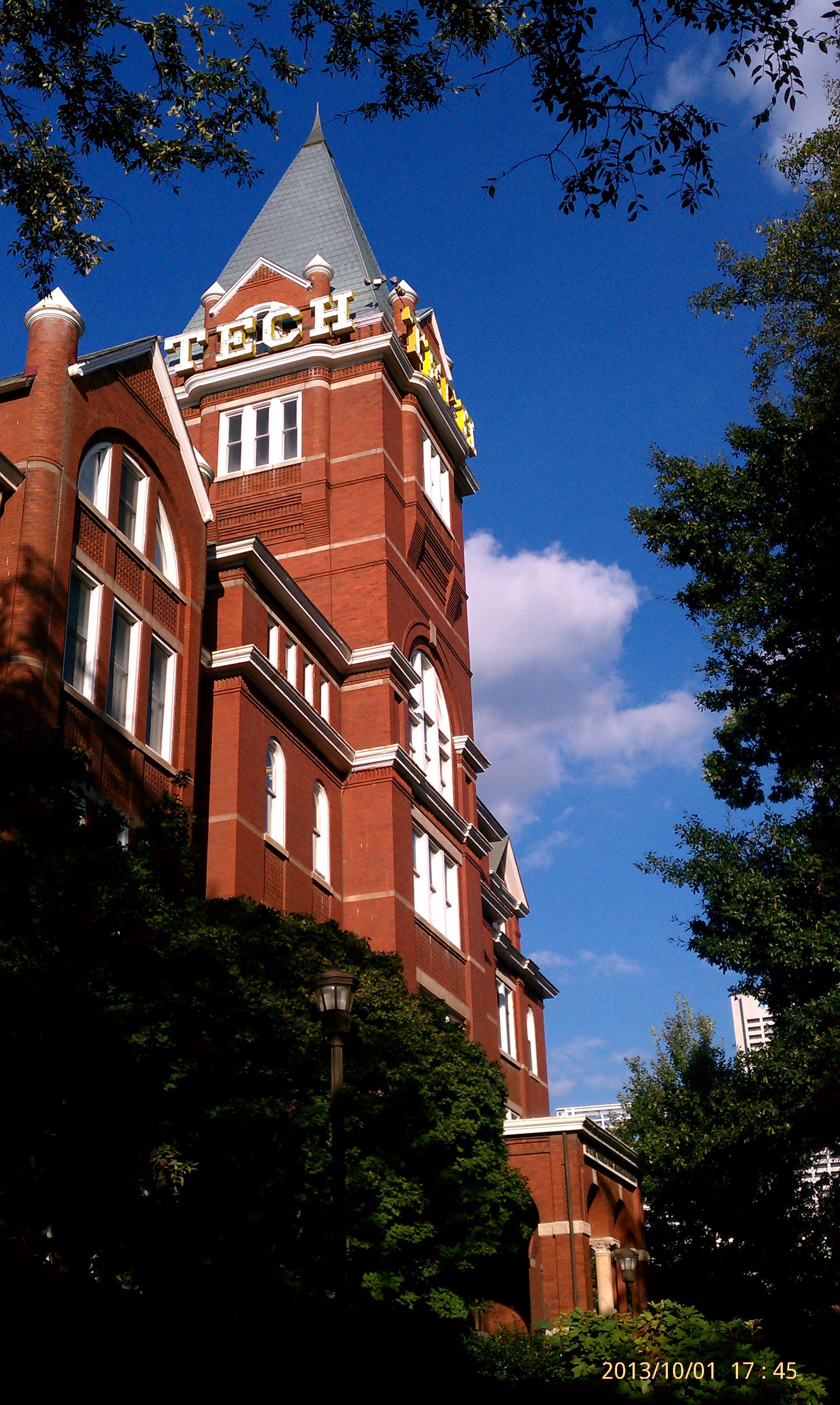 Tech Tower